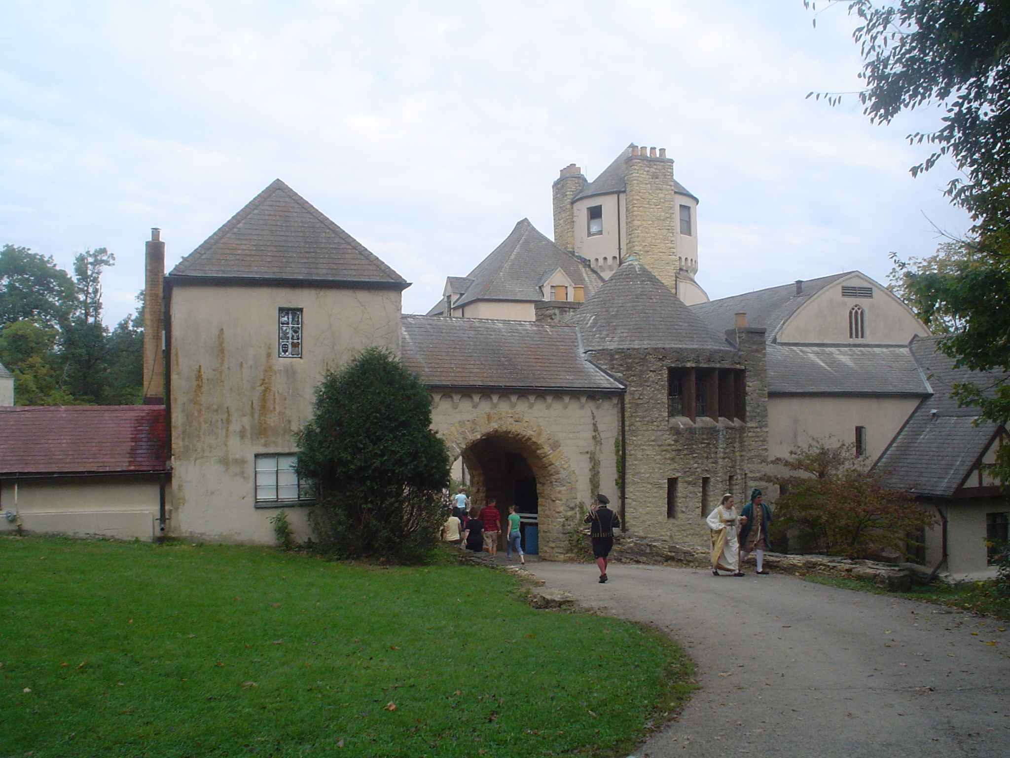 The entrance into Stronghold Castle, Oregon, Illinois, USA.